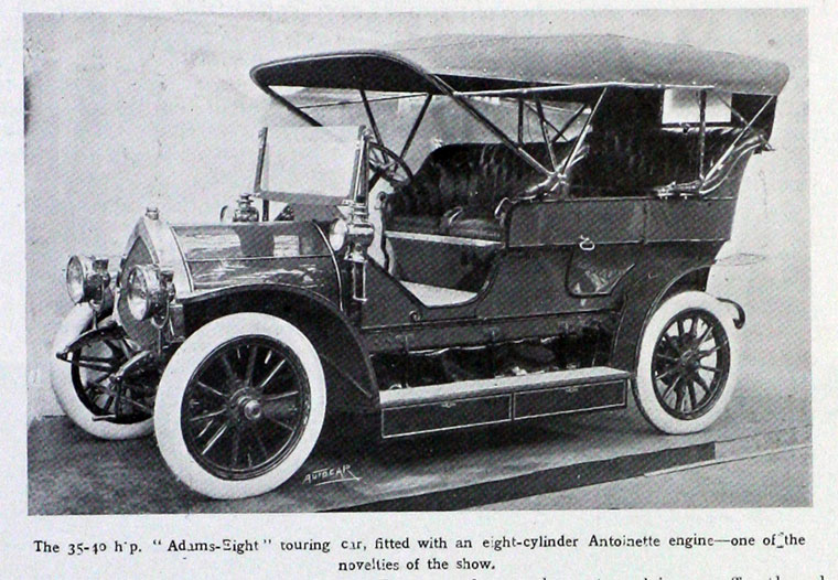 1906 Adams 35-40 HP eight cylinder touring car. The car was powered by a V-8 Antoinette engine built by the Adams Mfg. Co under licence. This is one of the first eight cylinder automobiles built.